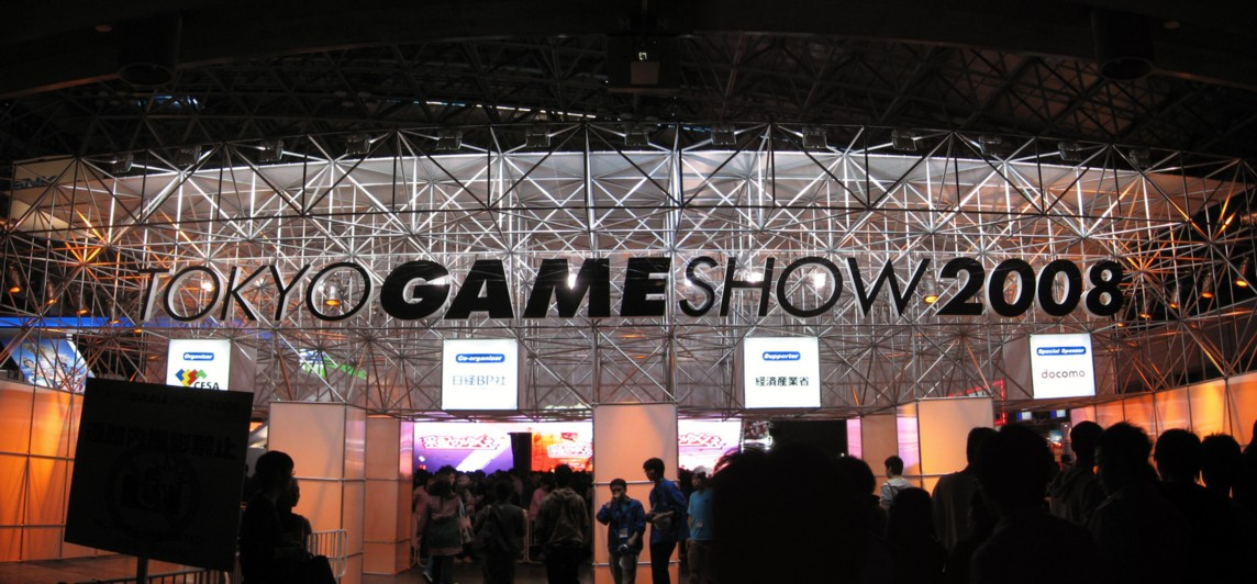 Tokyo Game Show2008 in Makuhari Messe. 2008.10.9-12